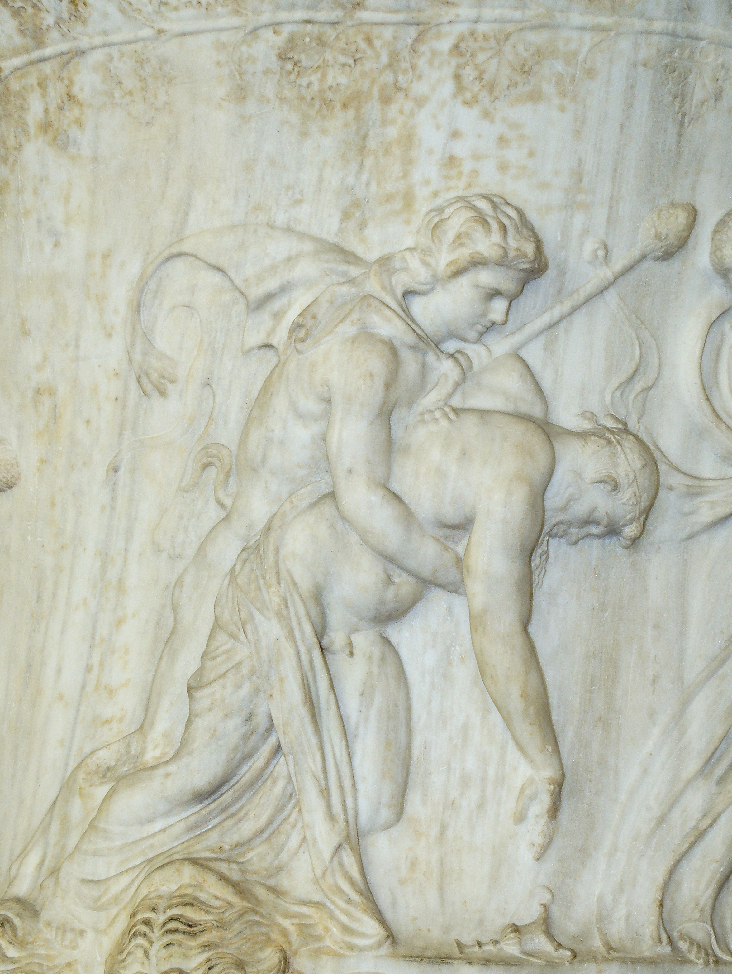 Satyr (left) wearing a pardalis and holding a thyrsus supporting a drunken ivry-wreathed silenus (right) whose kantharos (drinking cup) has rolled on the floor; side A, right part, from the Borghese Vase. Pentelic marble, Attic work, ca. 40–30 BC. Found in 1569 in the Horti Sallustiani, Rome.